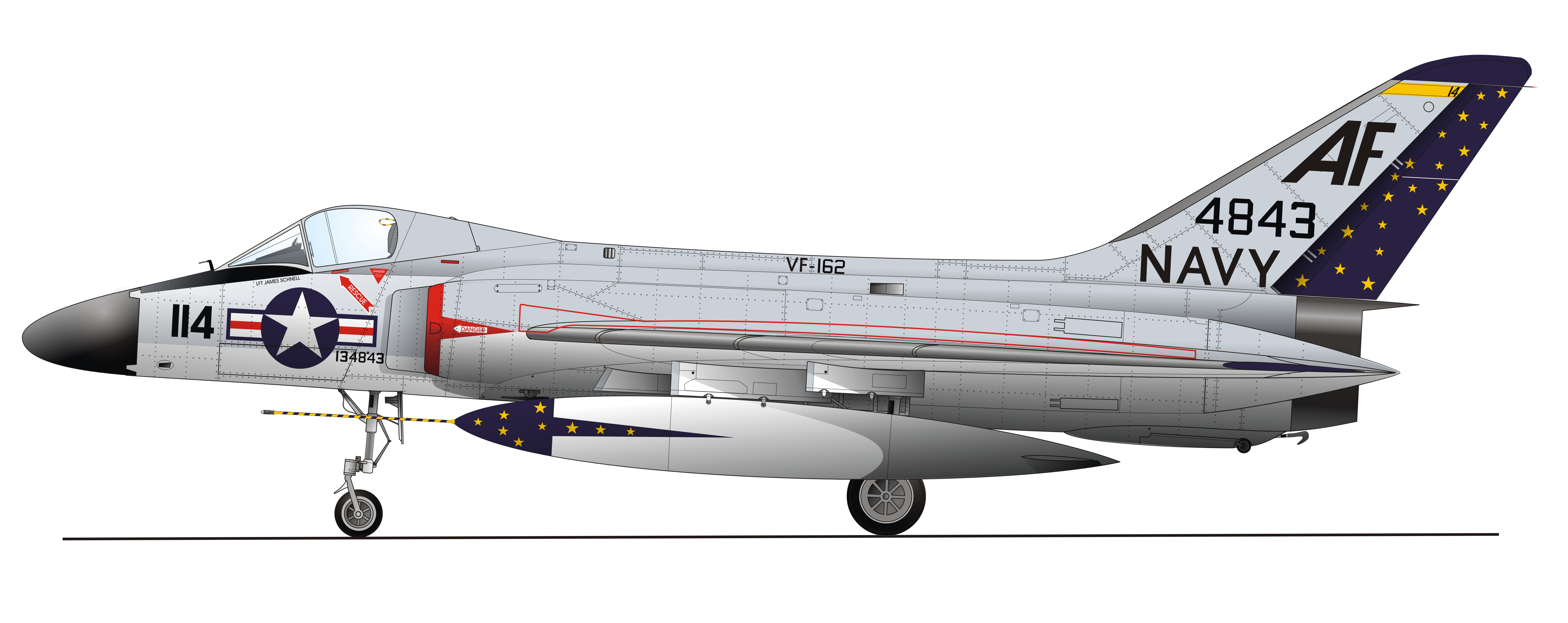 Drawing of a U.S. Navy Douglas F4D-1 Skyray (BuNo 134843) of fighter squadron VF-162 Hunters. VF-162 was assigned to Carrier Air Group 6 (CVG-6) aboard the aircraft carrier USS Intrepid (CVA-11) for a deployment to the Mediterranean Sea from 3 August 1961 to 1 March 1962.